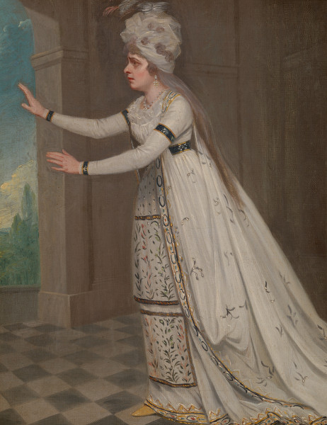 Anne Brunton Merry by Samuel De Wilde 1797???? guess